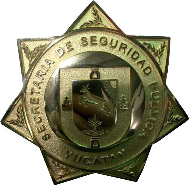 Yucatán State Police's badge, the State Police is a division of the Department of Public Safety